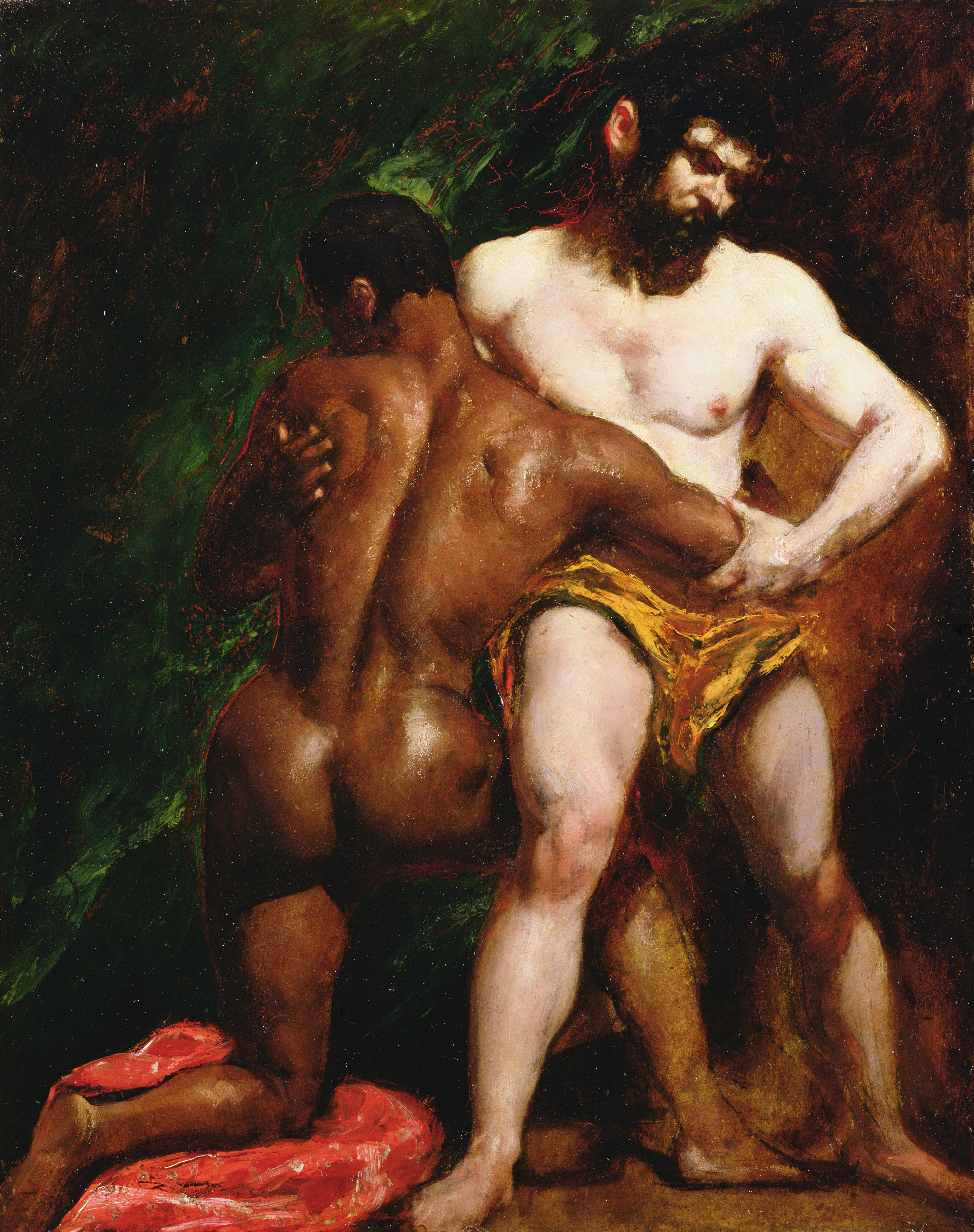 Right, a bearded white man wearing a yellow loin-cloth wrestles with a black man, left, who is on one knee. Rich green background.